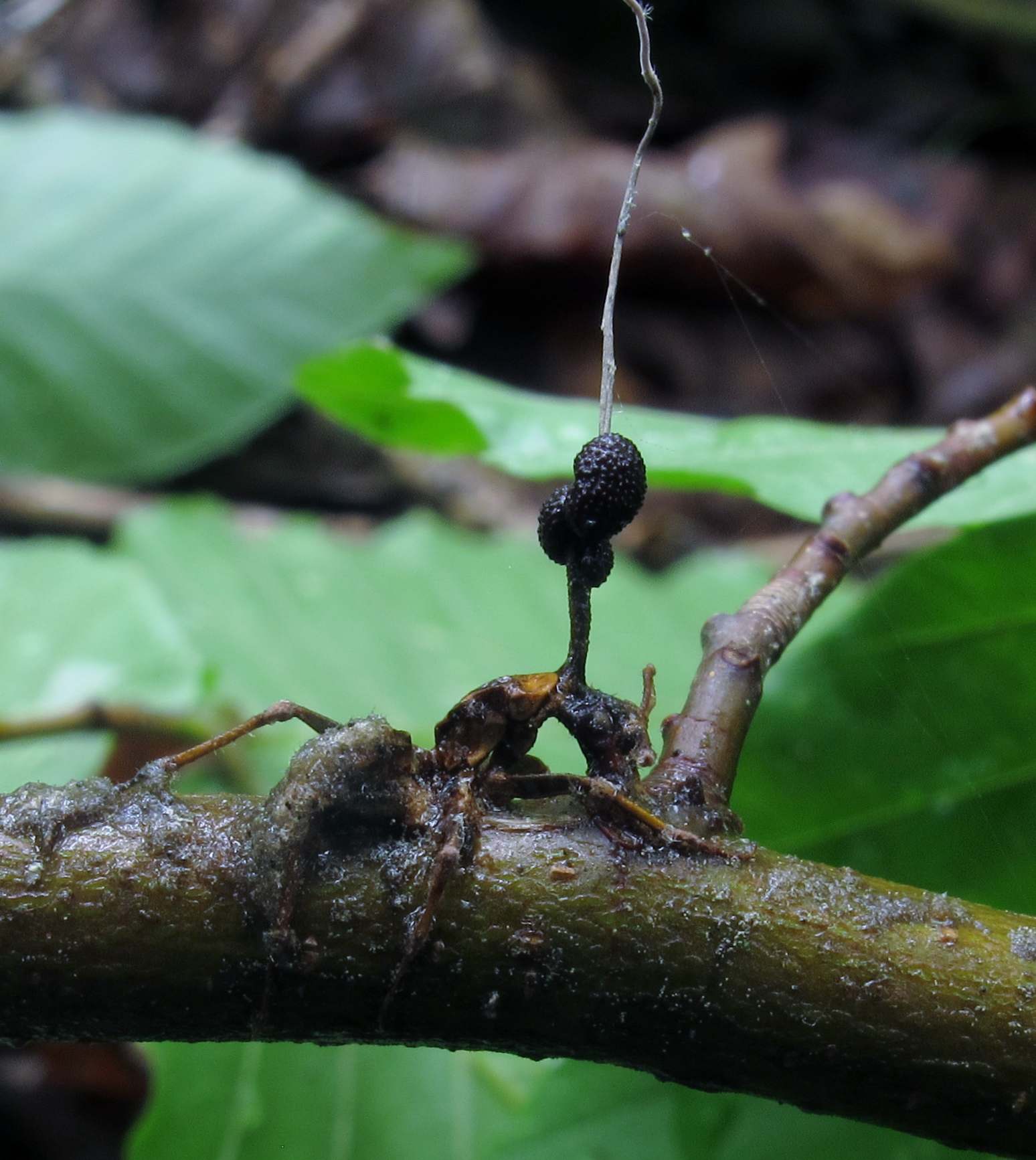 Ophiocordyceps unilateralis group Image location: Clemson, South Carolina, USA is with the finder, Tradd Cotter of the South Carolina Upstate Mushroom Club. Recognized by sight For more information about this, see the observation page at Mushroom Observer.